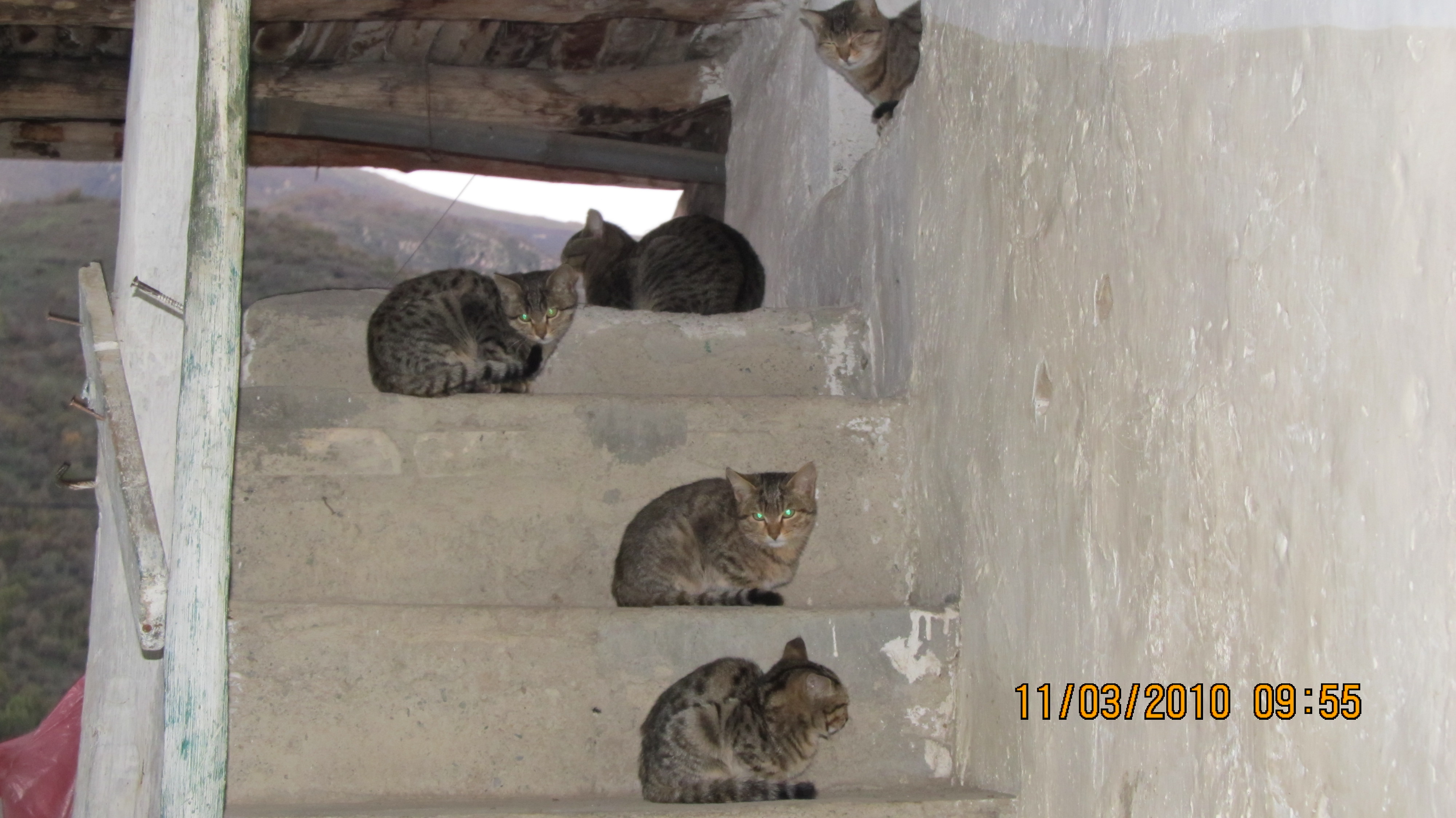 For Abbasabad file